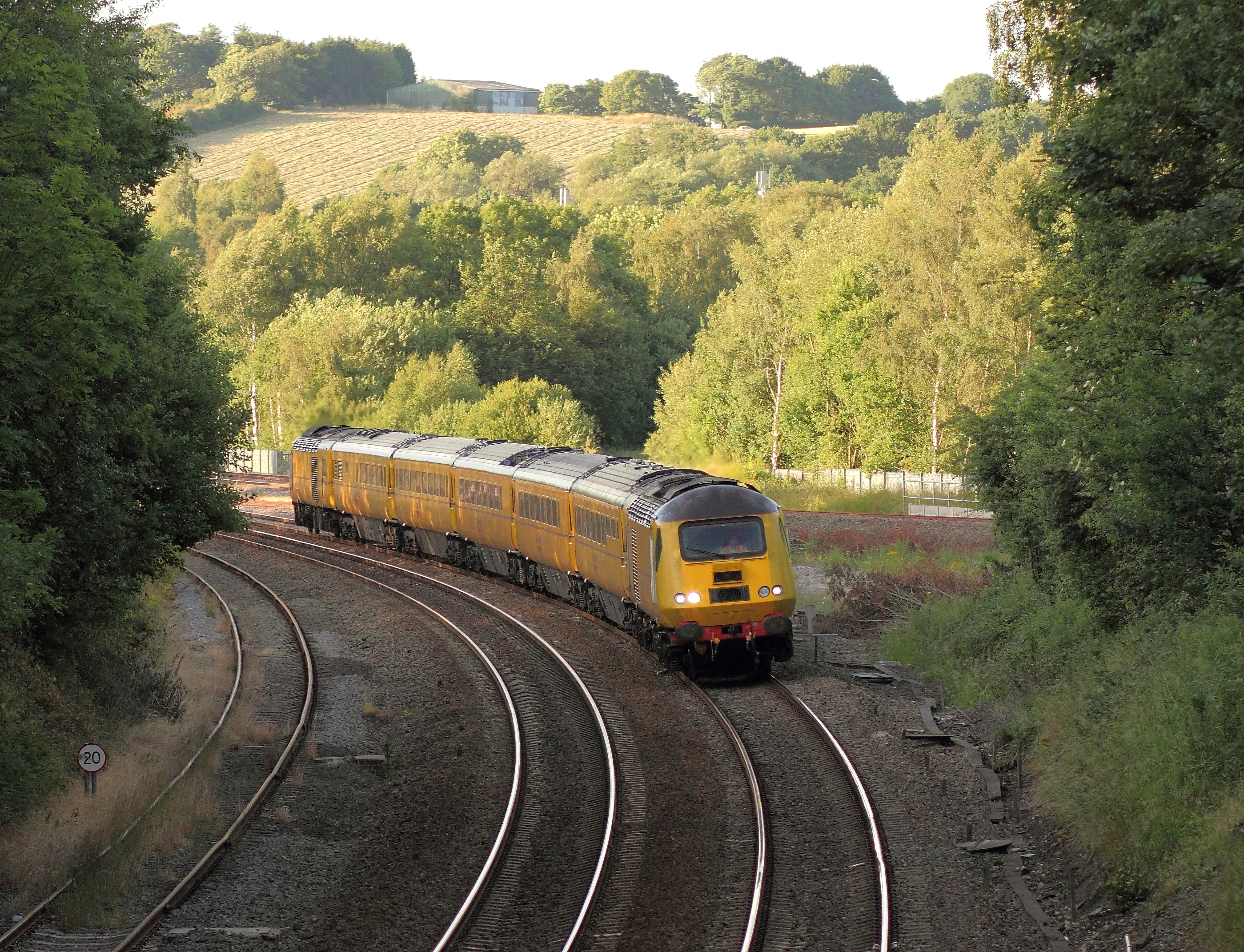 The NMT near Claycross tunnel working 1Q04 Glasgow Queen Street - Derby RTC.